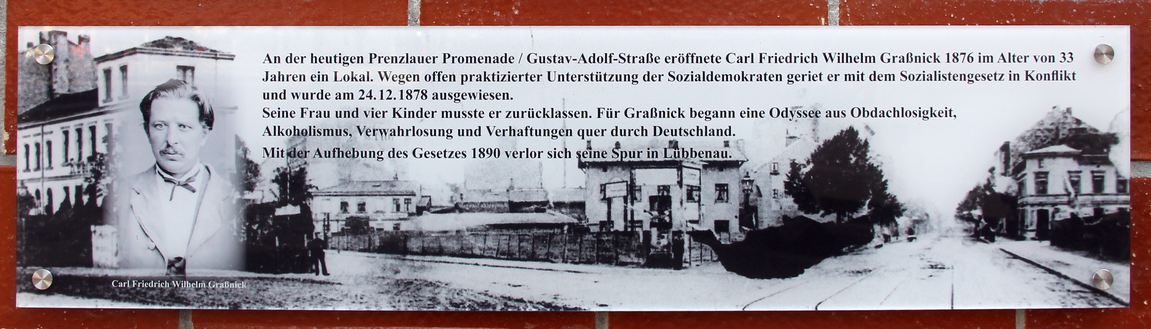 Memorial plaque, Carl Friedrich Wilhelm Graßnick, Caligariplatz, Berlin-Weißensee, Germany